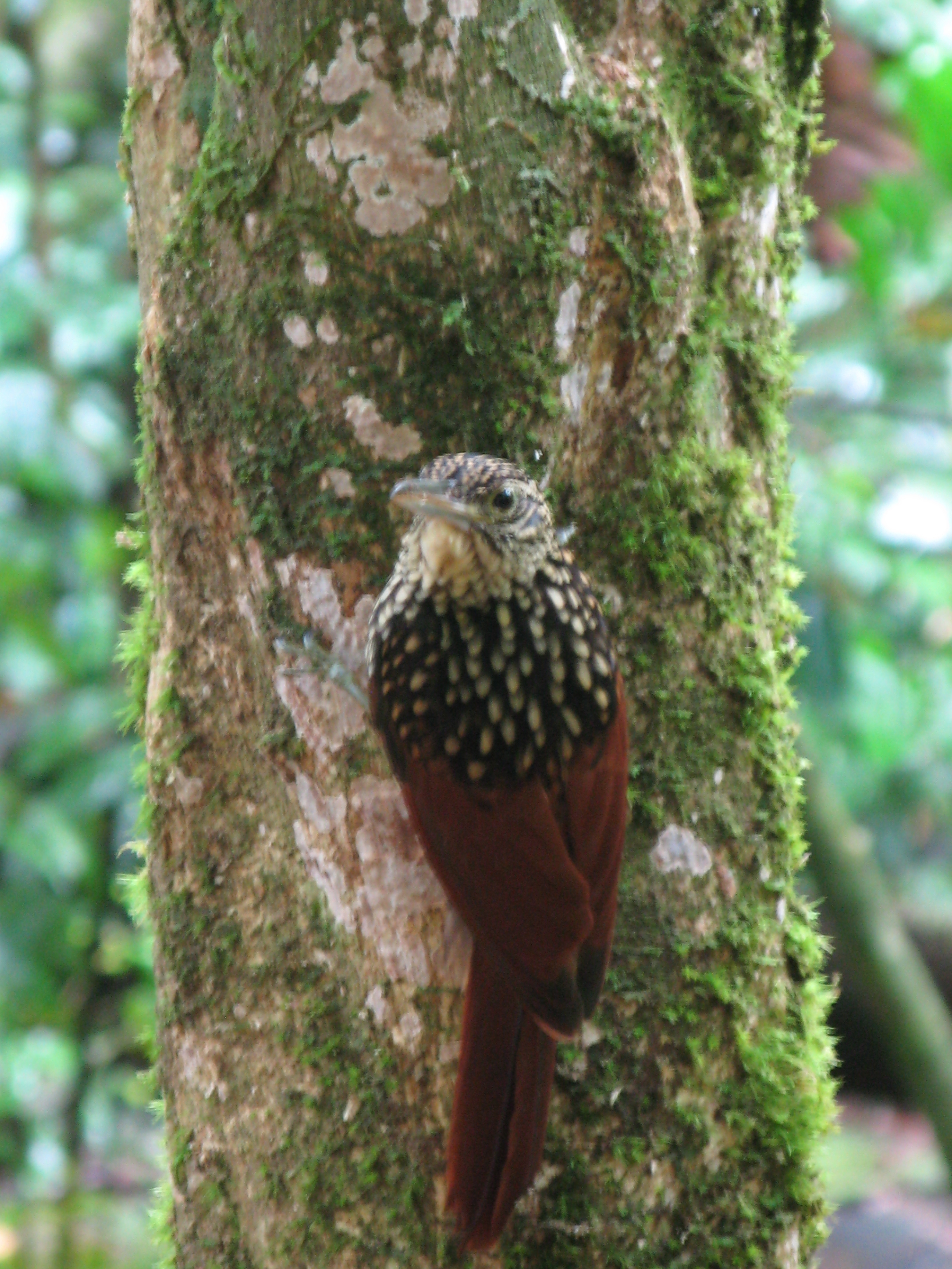 Black-striped Woodcreeper Xiphorhynchus lachrymosus Corcovado, Costa Rica. Original description: This bird flew right up to the group and landed on the tree next to us and proceeded to watch us with intense curiosity. It was about 1' away and showed no fear.